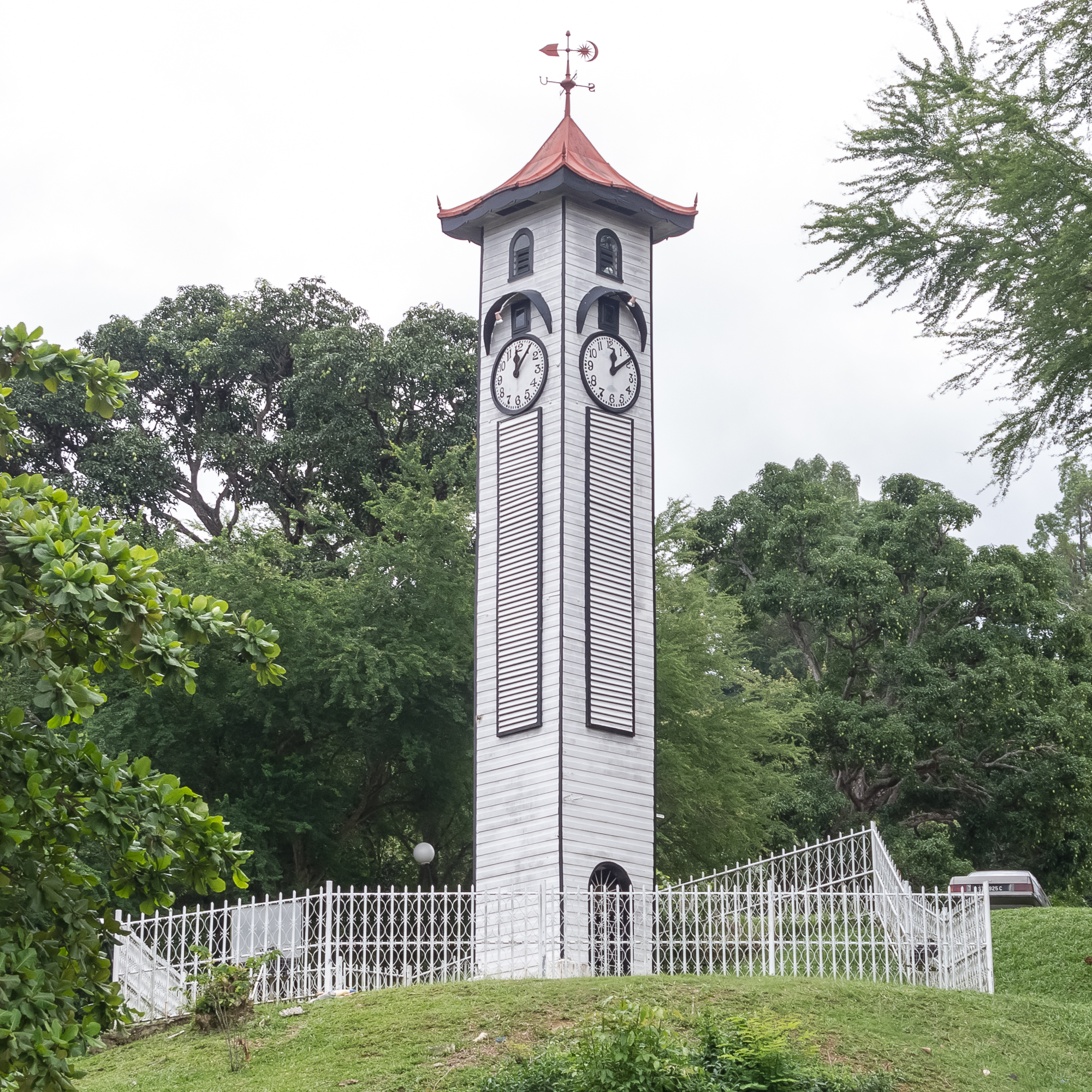 Kota Kinabalu (Sabah): Belfry)